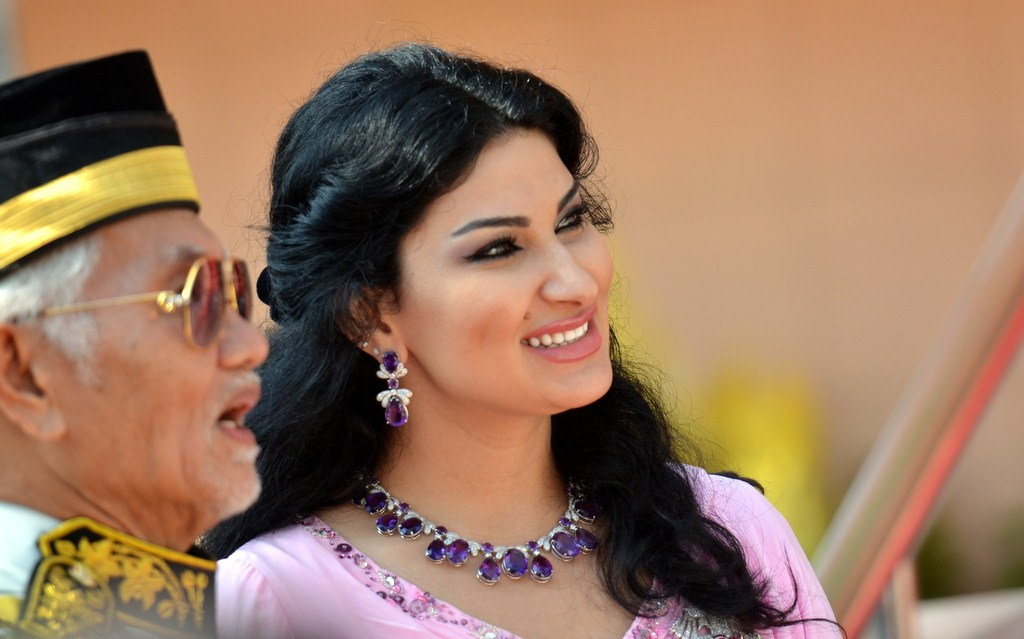 Taib Mahmud with his Syrian wife, Ragad Waleed Alkurdi Taib during the birthday celebration for Sultan of Brunei in 2011